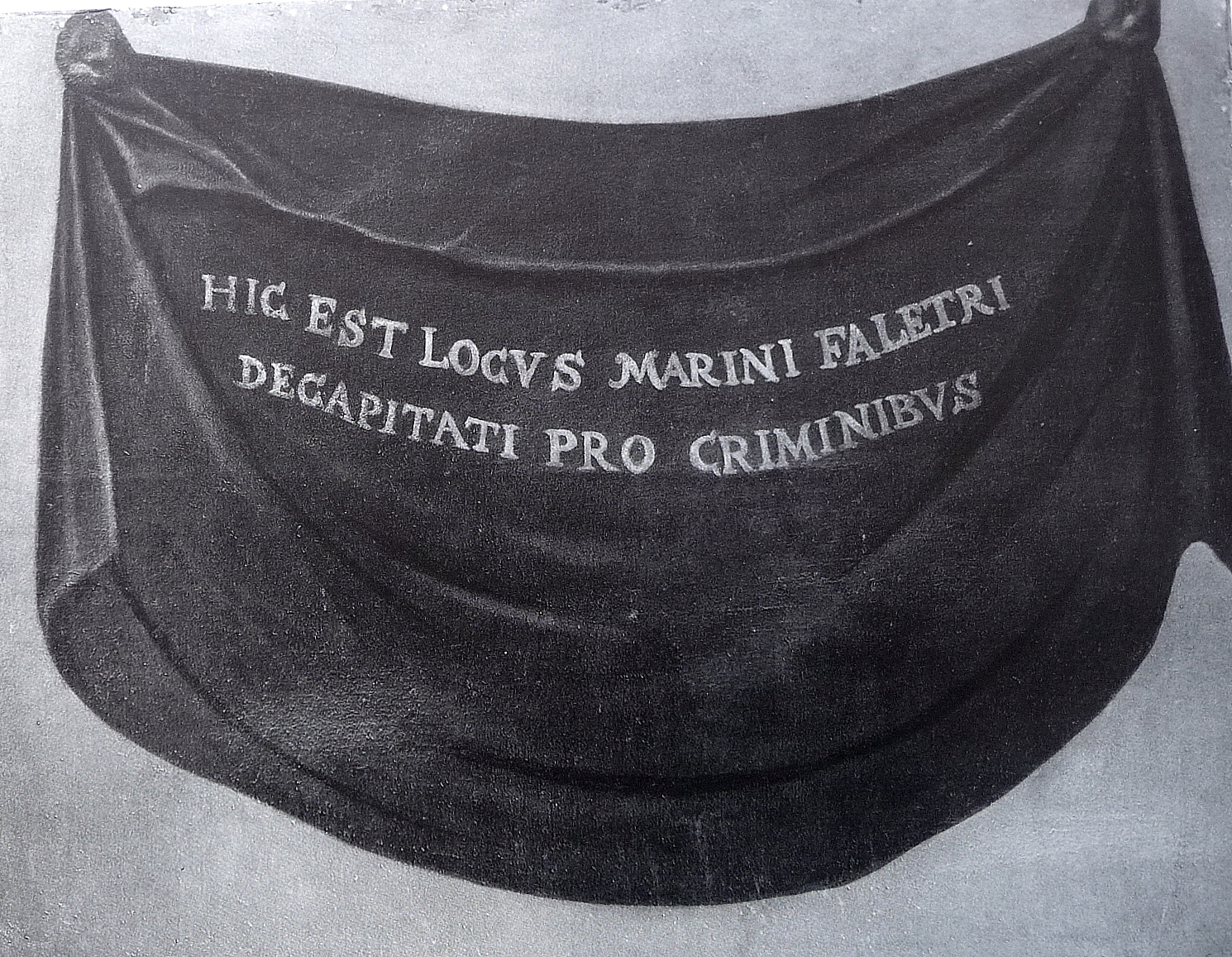 Doge Marin Falier, damnatio memoriae. Venice, Doge's palace, Sala del Maggior Consiglio